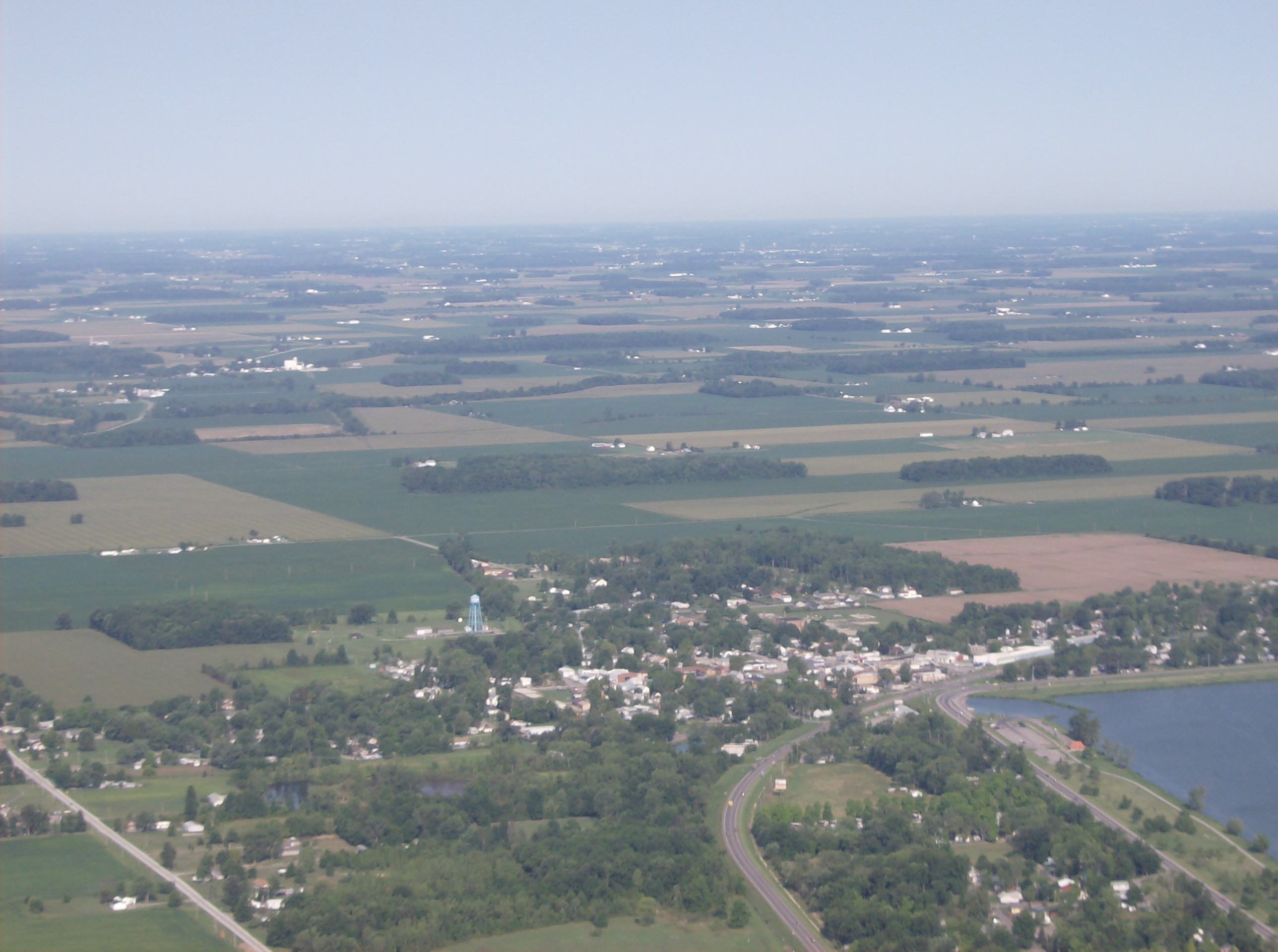 Aerial view of Lakeview, Ohio, United States, taken from Diamond Star light airplane. Picture taken at an bearing of approximately 275º.